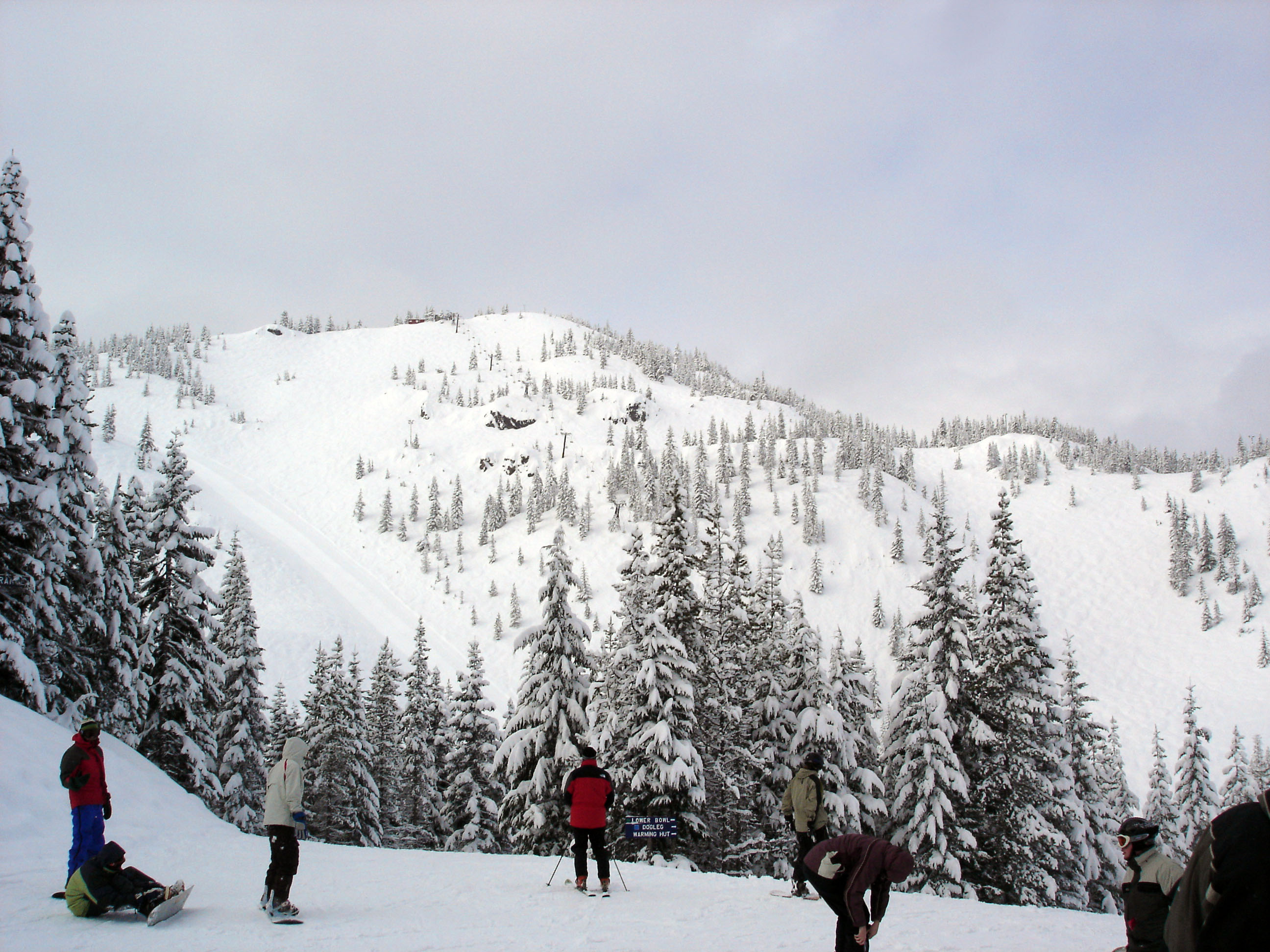 Picture of the SkiBowl peak.